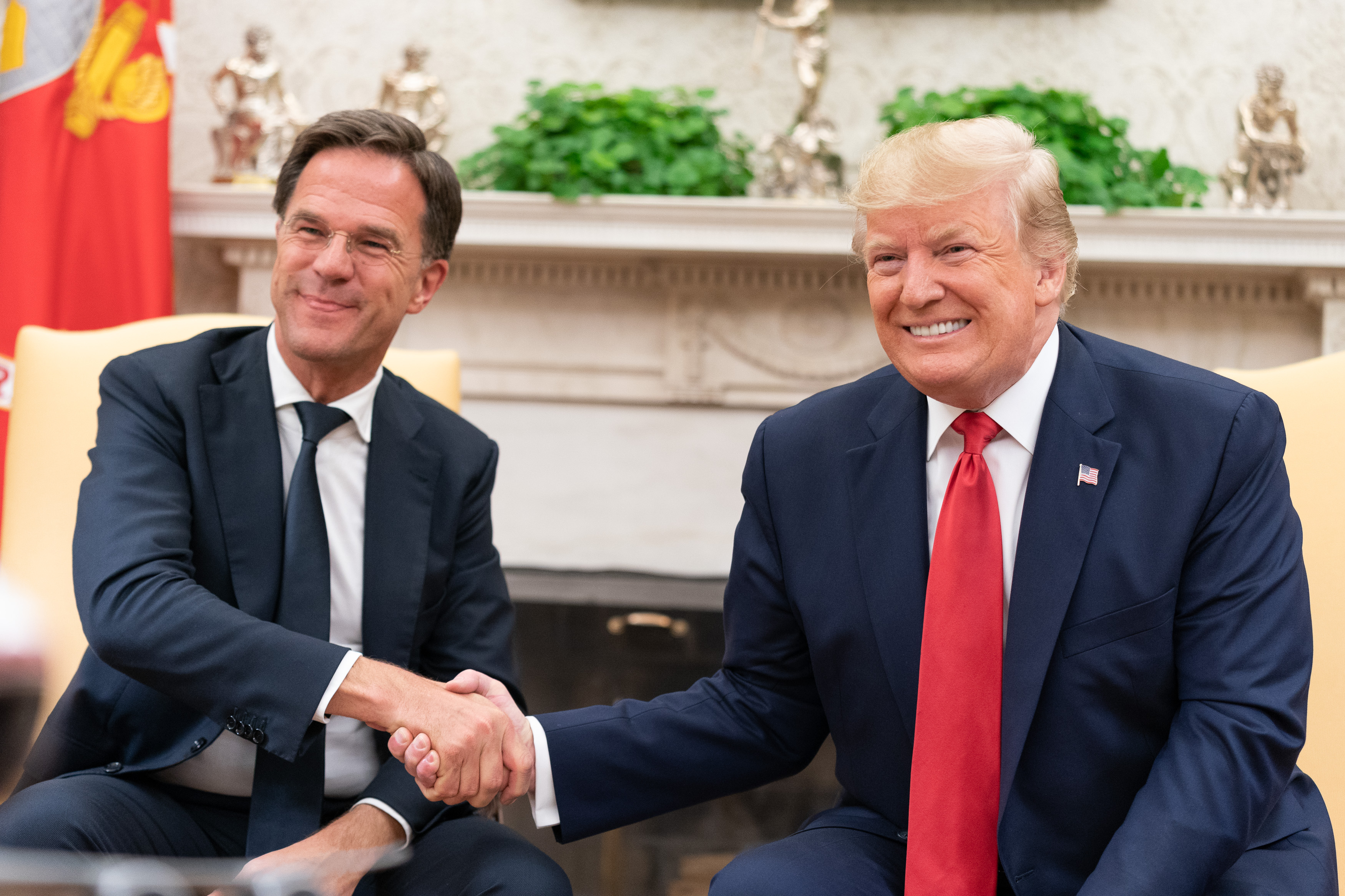 President Donald J. Trump participates in a bilateral meeting with the Prime Minister of the Netherlands Mark Rutte Thursday, July 18, 2019, in the Oval Office of the White House. (Official White House Photo by Shealah Craighead)